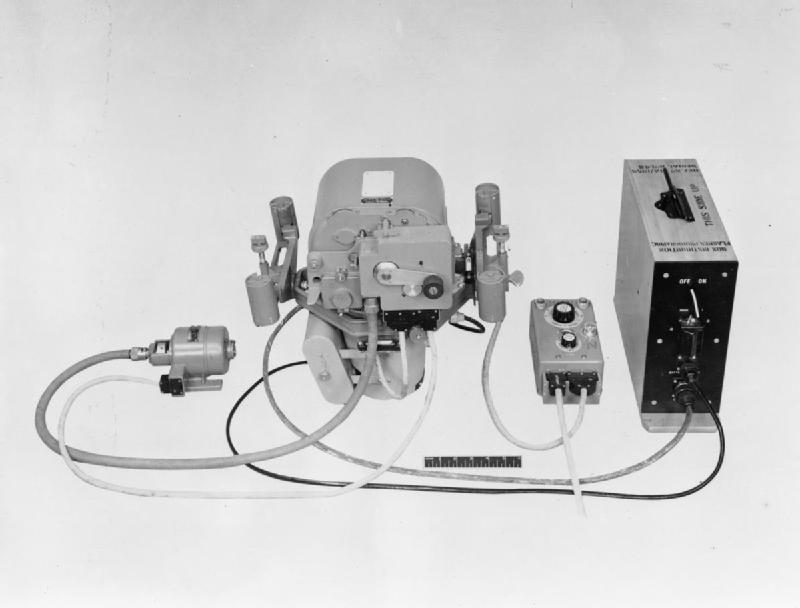 Photography in the Royal Air Force, 1939-1945. A Type F.24 aerial camera Mark I, for night photography. Attached to the lens cone, on the left hand side, is a photo-electric cell, valve amplifier and relay mechanism. On the left, connected to the camera body, is the camera driving motor. To the right of the camera is a Type 35 No. 5 camera control unit, and, at far right, a distribution box containing the batteries and an accumulator. The illumination for night photography was provided by a 4.5” Aircraft Photographic Flash, fuzed for the height at which the aircraft was flying.